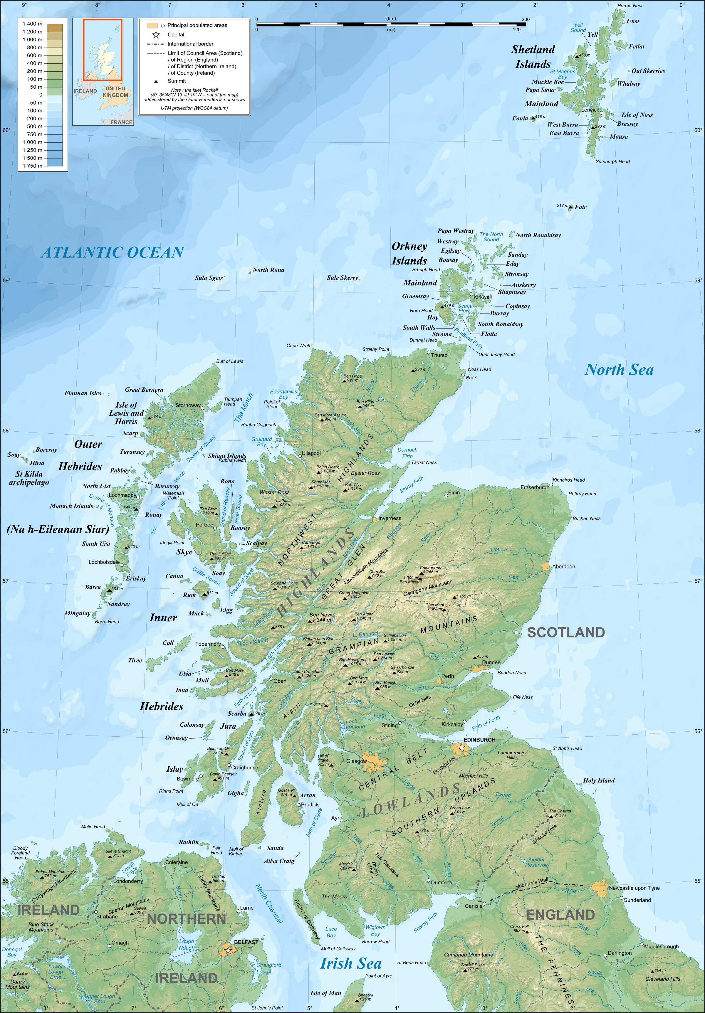 Topographic map in English of Scotland This is a lighter raster JPG format version of Image:Scotland_topographic_map-en.svg which should be used in the article pages, the vector graphics version purpose being for modification and / or translation.